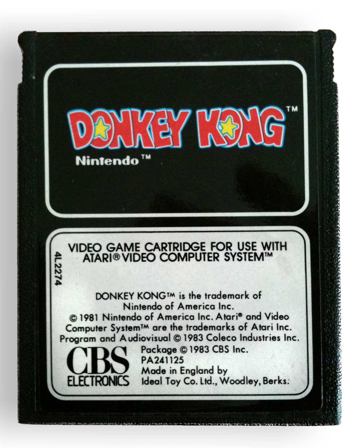 Atari 2600 Cartridge of the game Donkey Kong